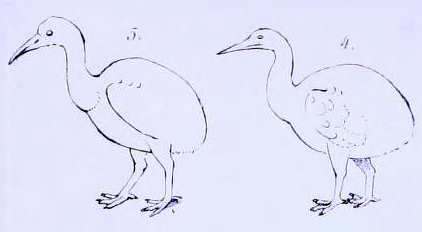 Outline sketches of Didus broeckei and Didus herbertii. Both are based on 17th century sketches which are now both known to show Red Rails, but Schlegel was unsure where the rails depicted were from, and speculated that the second was from Rodrigues and the first from Mauritius. Due to this confusion, Frederick Frohawk used the second outline as basis for his 1907 restoration of the Rodrigues Rail.